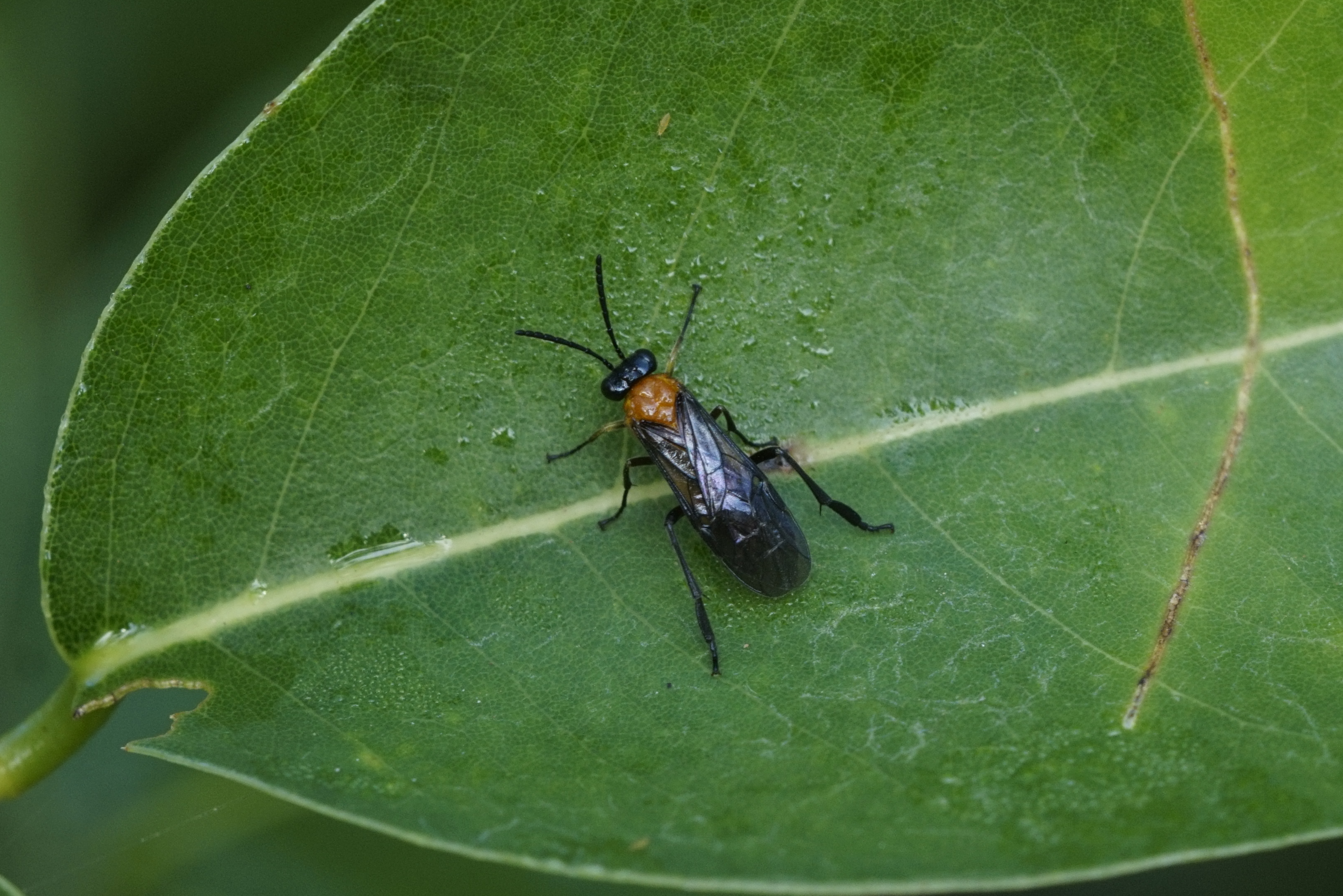 Sawfly